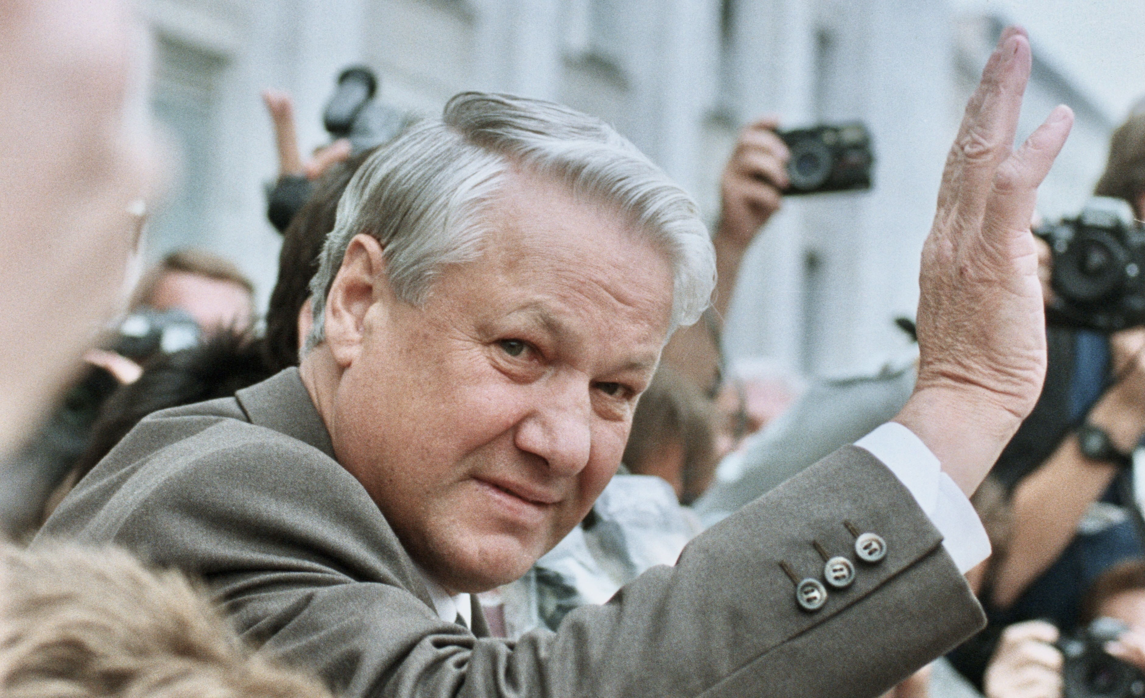 Boris Yeltsin waves at the reporters